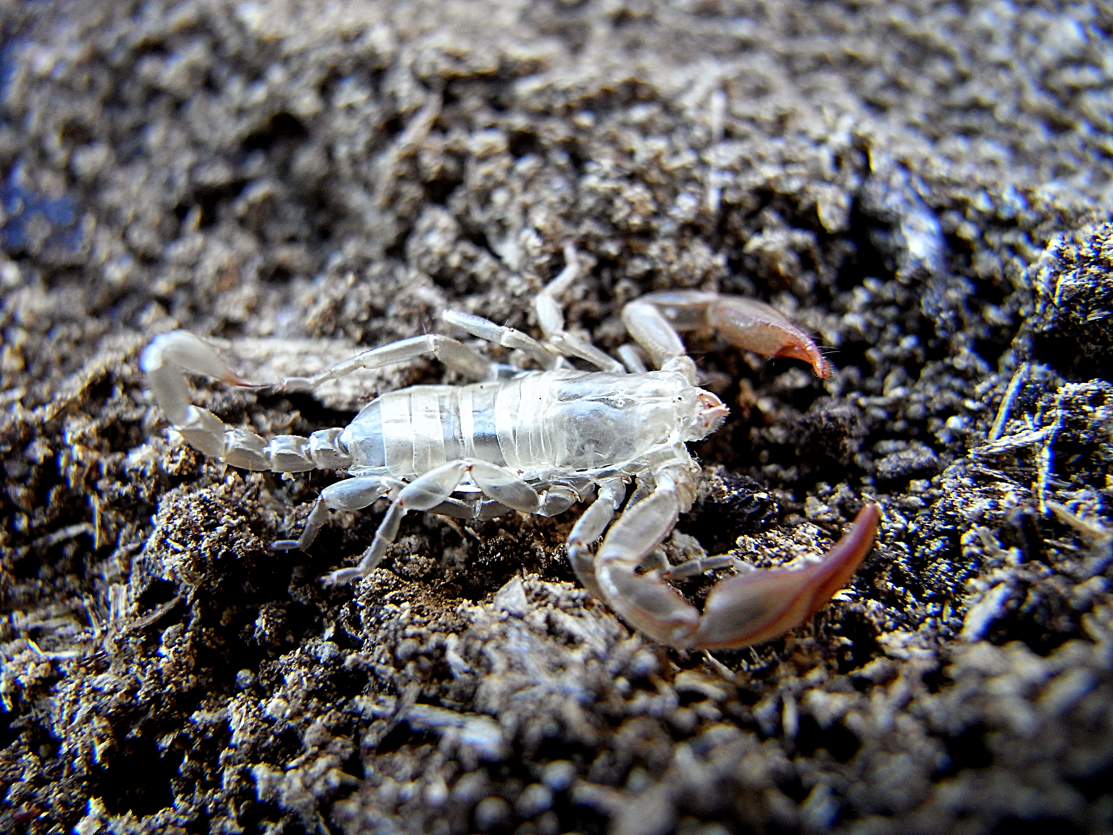 Exuvia of Scorpion from Southern France, Montagne de la Clape Ricoh R8